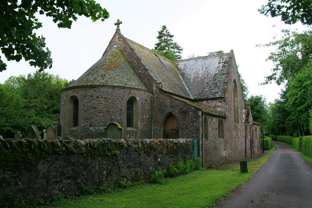 Longformacus Church Longformacus Parish Church was rebuilt in 1730 on the foundations of a previous church. It is a plain plain gothic church with bellcote to the west.